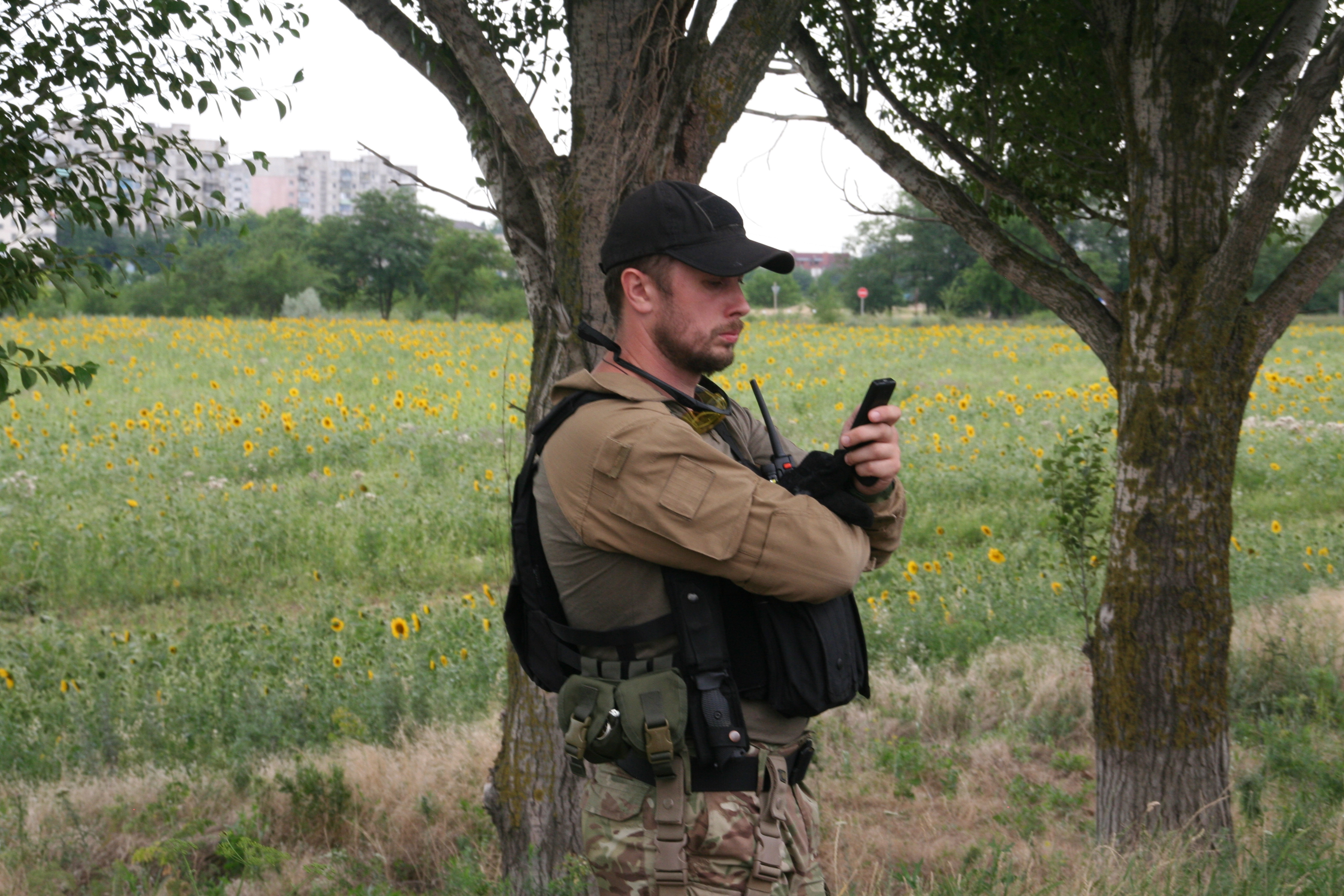 Andriy Biletsky, commander of the Azov Battalion, leads units of the battalion on a patrol near Mariupol, Ukraine, on 5 July 2014.